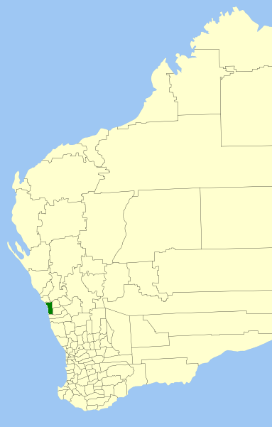 Description=Location of the Local Government Area in Western Australia